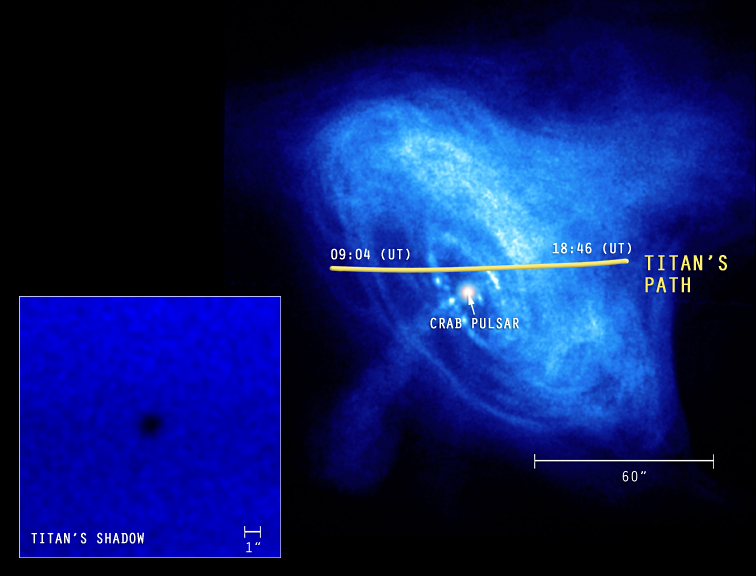 Very rarely, Saturn transits the Crab Nebula. Its transit in 2003 was the first since 1296; another will not occur until 2267. Observers used the Chandra X-ray Observatory to observe Saturn's moon Titan as it crossed the nebula, and found that Titan's X-ray 'shadow' was larger than its solid surface, due to absorption of X-rays in its atmosphere. These observations showed that the thickness of Titan's atmosphere is 880 km (550 mi). The transit of Saturn itself could not be observed, because Chandra was passing through the Van Allen belts at the time.